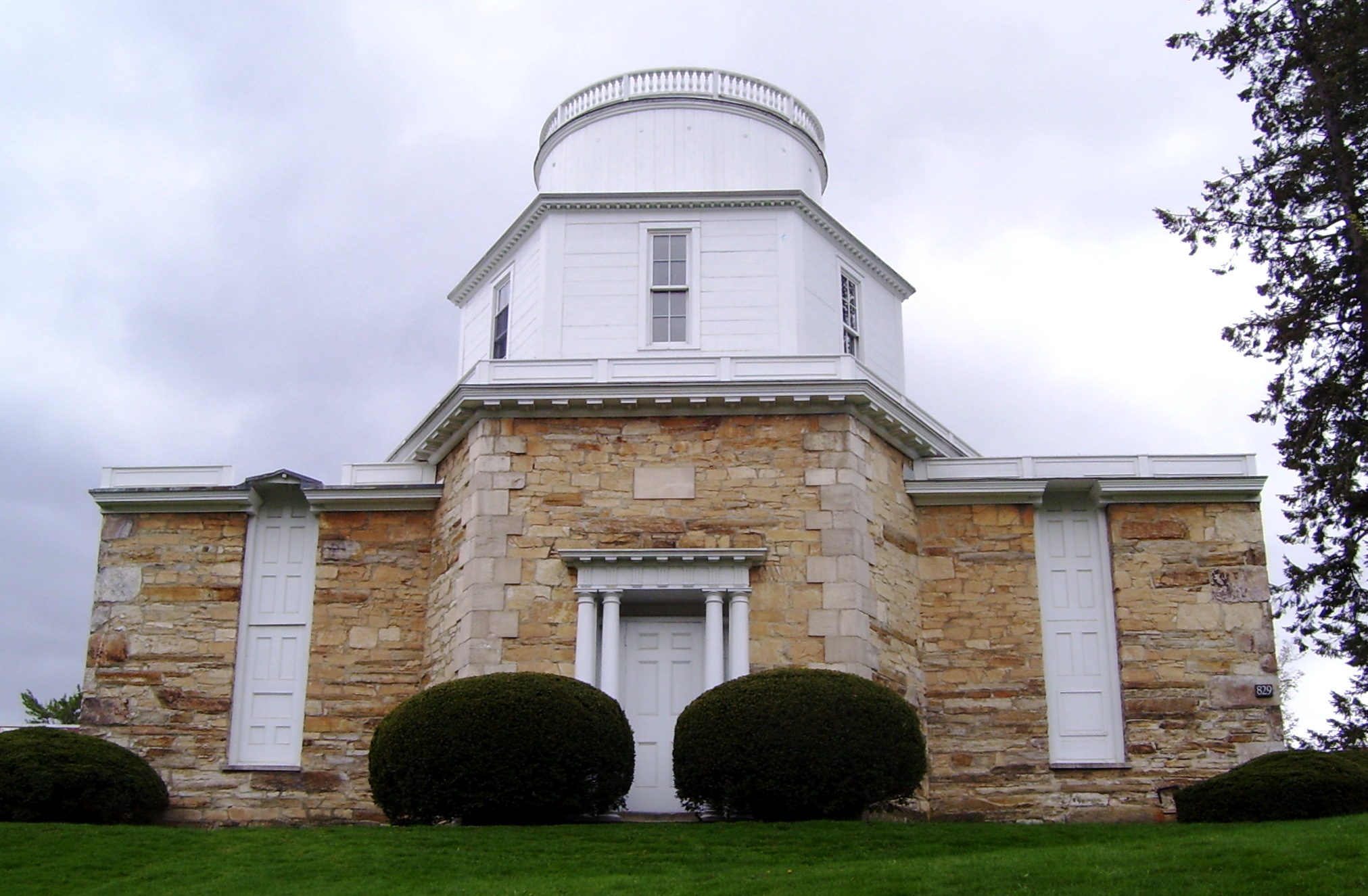 The Hopkins Observatory of Williams College on Main Street in Williamstown, Massachusetts.